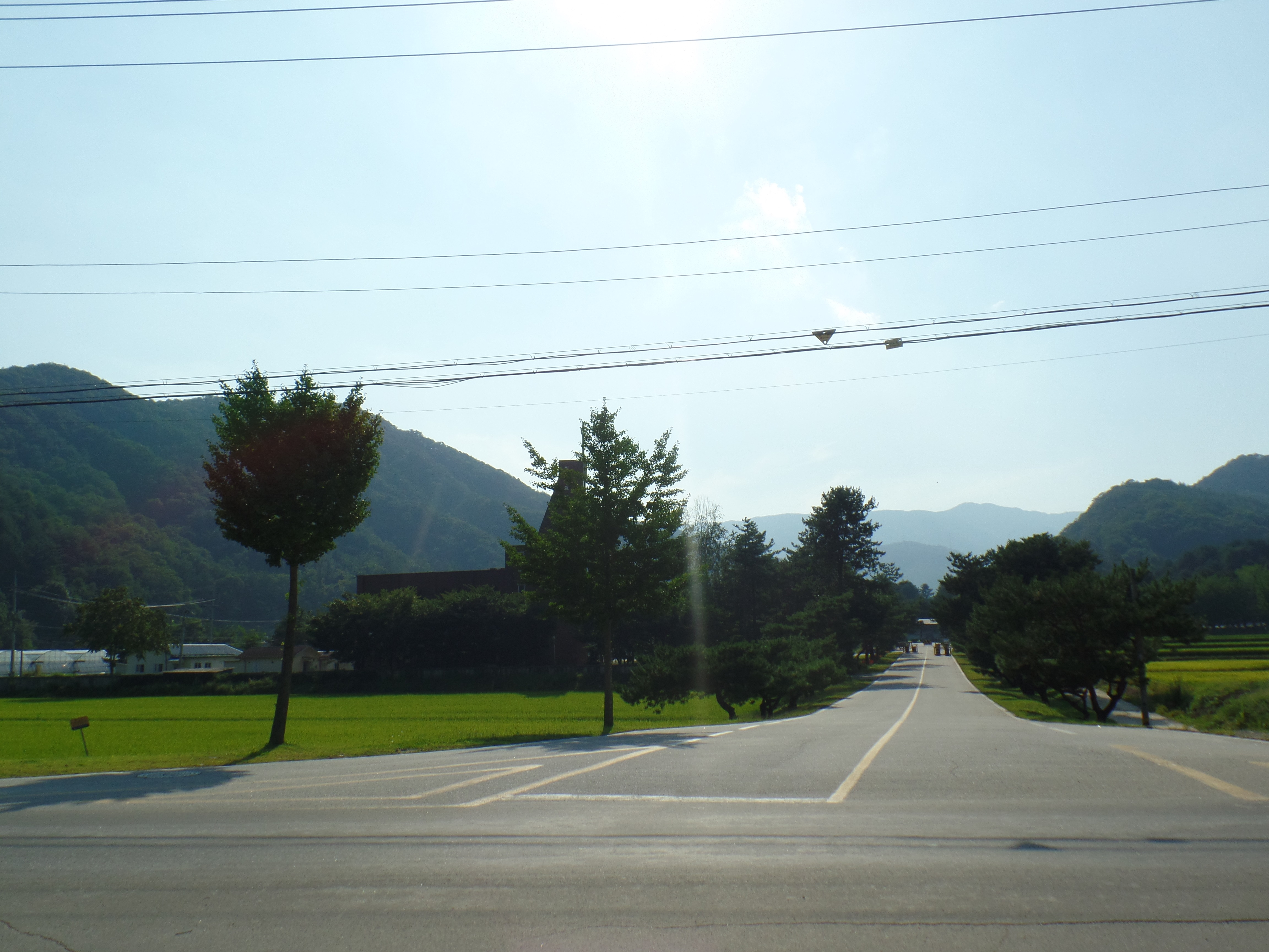 Access road of Republic of Korea Army 7th Infentry Division Headquarters